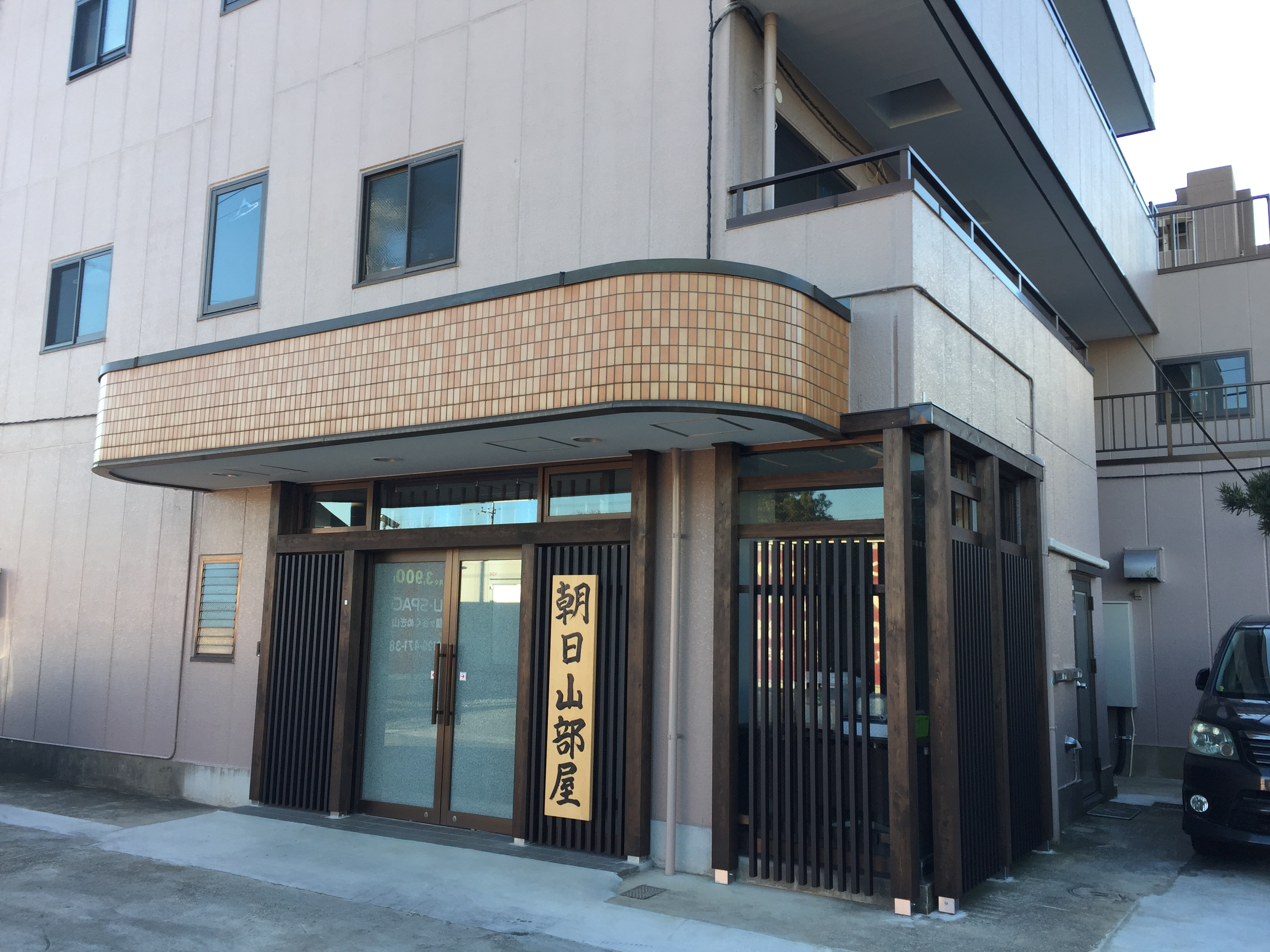 taken in front of stable in near Kunugiyama station